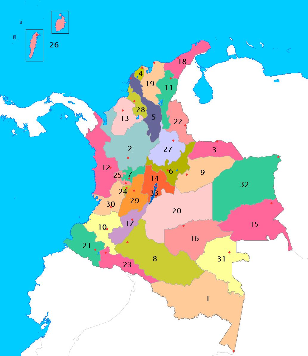 Departments of Colombia, hand drawn, with capitals of each department and numbering according to the common use in Wikipedia. Disclaimer: The borders are very imprecise, as I drew them using a real PD Map as guideline.